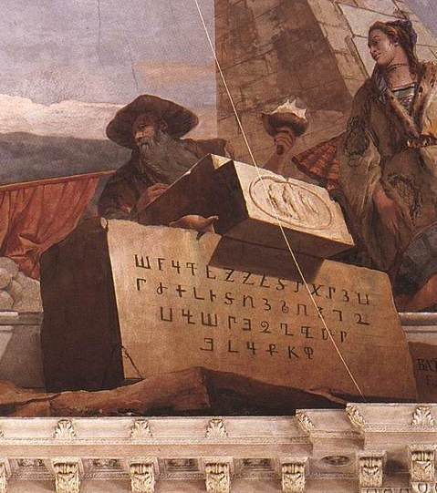 Apollo and the Continents (Asia, obelisk group)